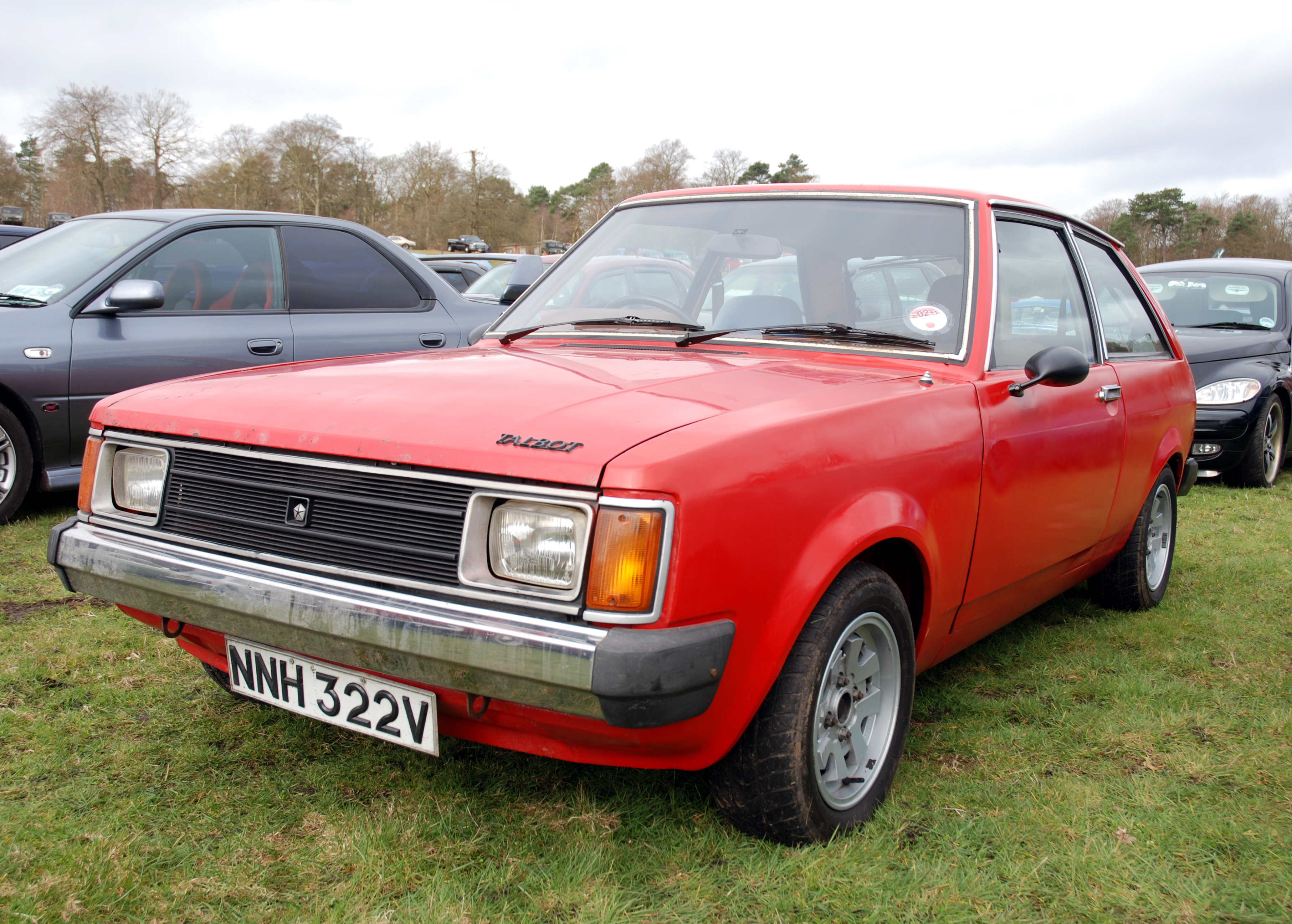 I learned to drive in one of these...Wheels Day 2010